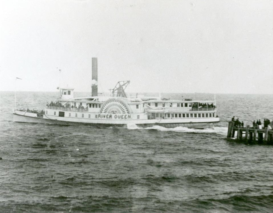 Steamer River Queen